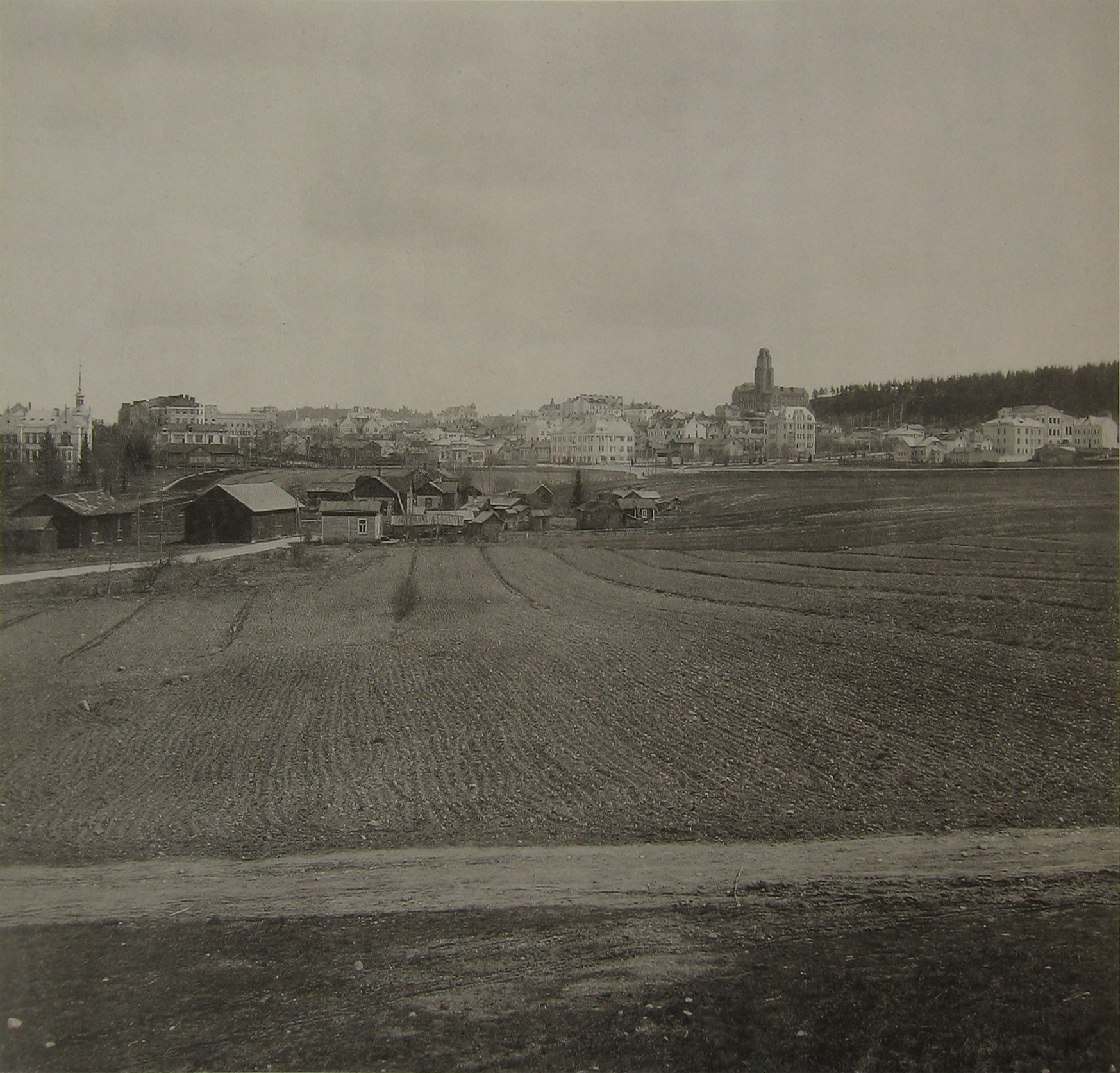 Lahti viewed from Vesijärvi in 1913